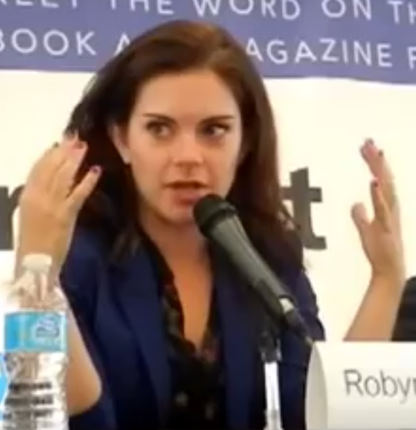 HiMY SYeD -- Robyn Doolittle, David Rider, The Year in Politics at City Hall, TorontoWOTS, Sunday September 23 2012